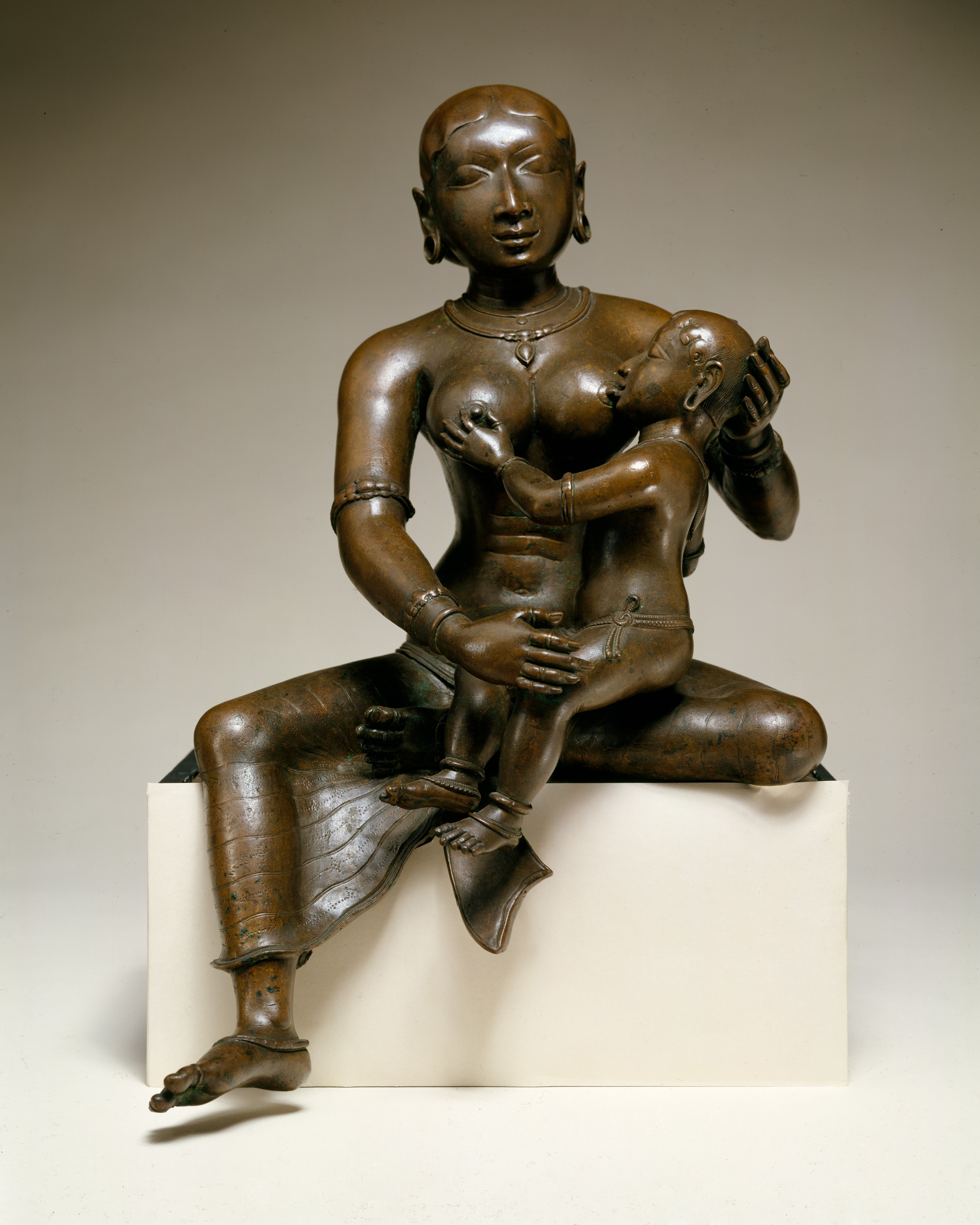 Yashoda with infant Krishna early 12th century Tamil Nadu Pudukkottai and Tanjavur districts